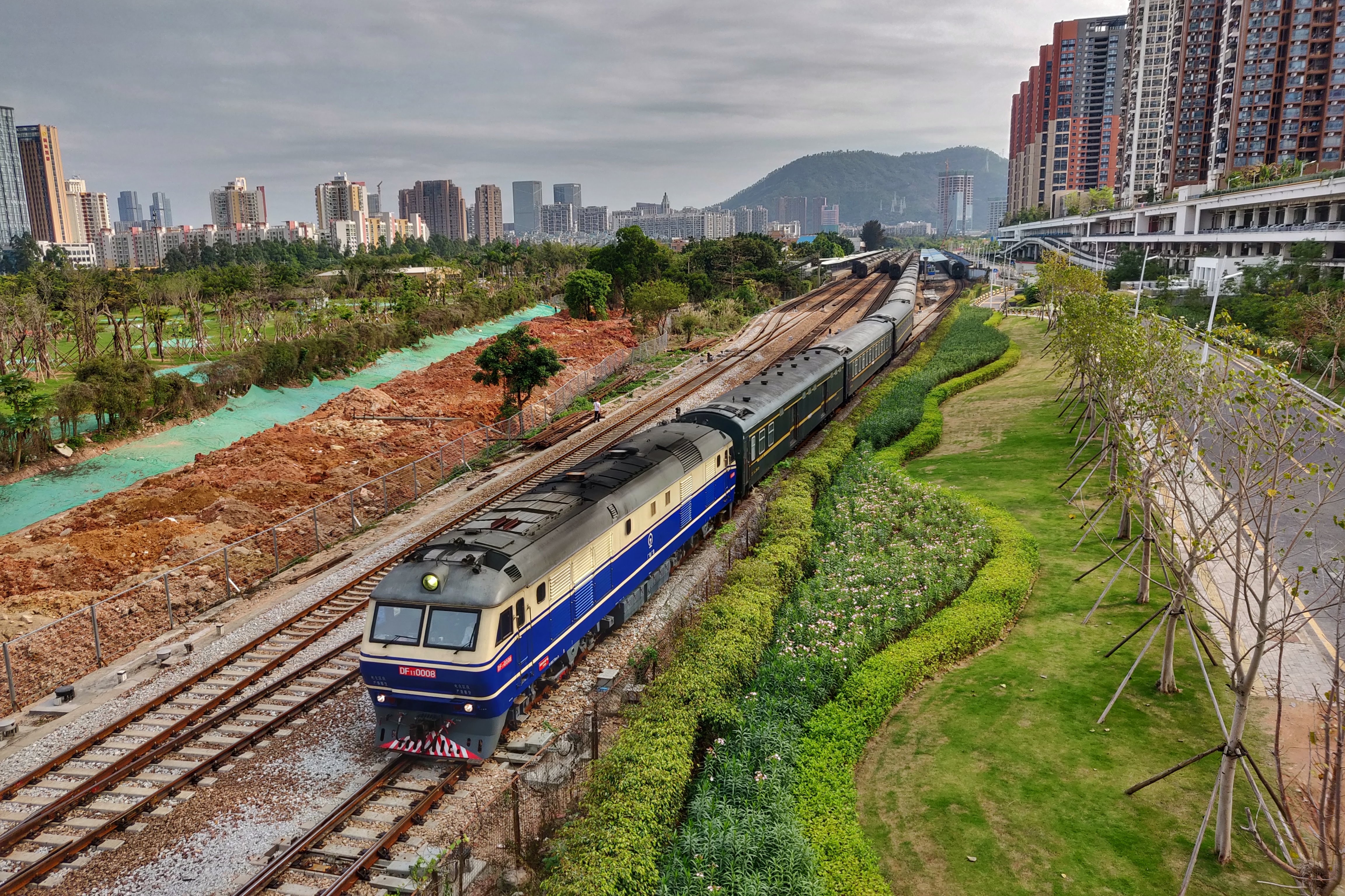 DF11-0008 Leaving Shenzhen West Station